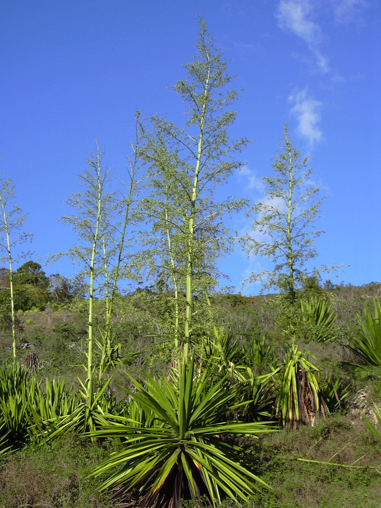 Furcraea foetida (fruiting). Location: Maui, Kanaio